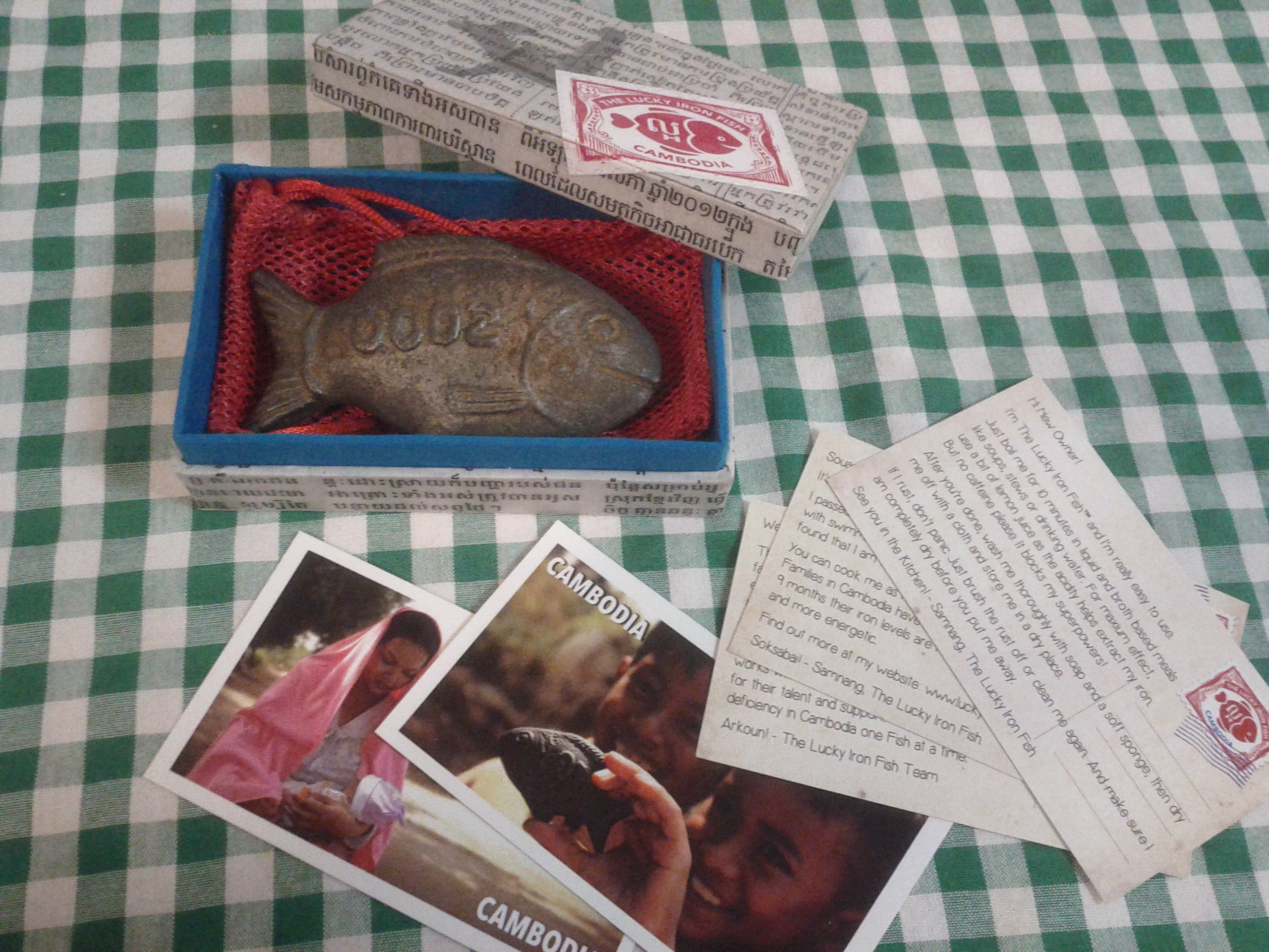 Photo taken by me, in my home, of a Lucky iron fish package.